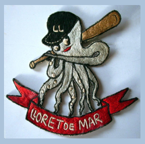 picture of a cloth badge; taken with own camera